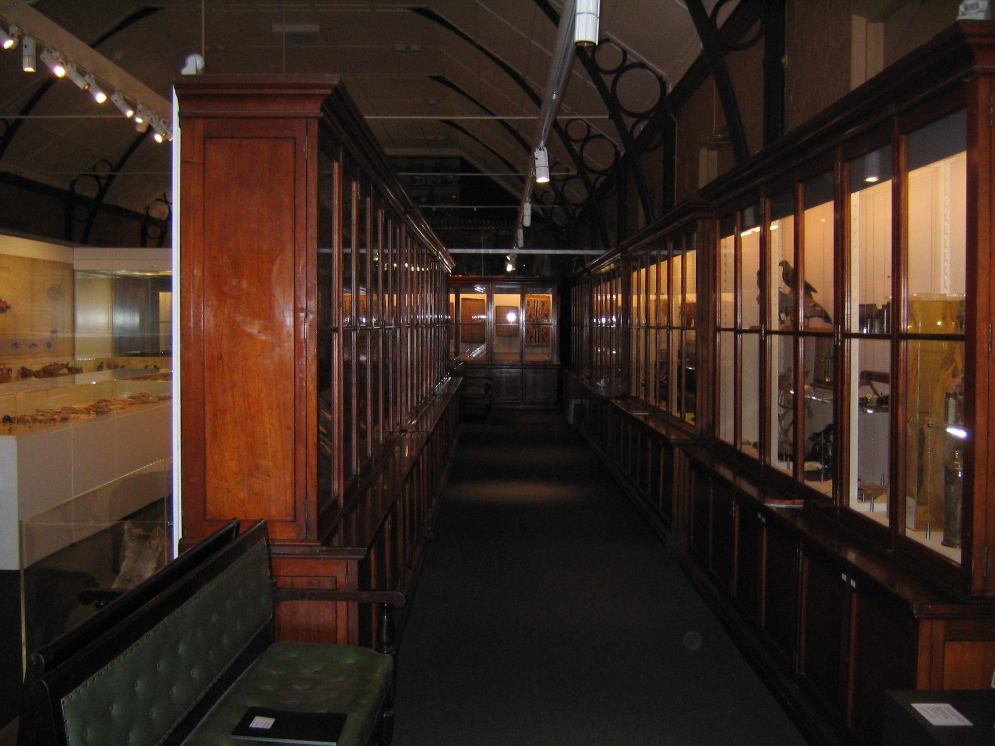 A corridor of display cases inside the Macleay Museum at the University of Sydney.